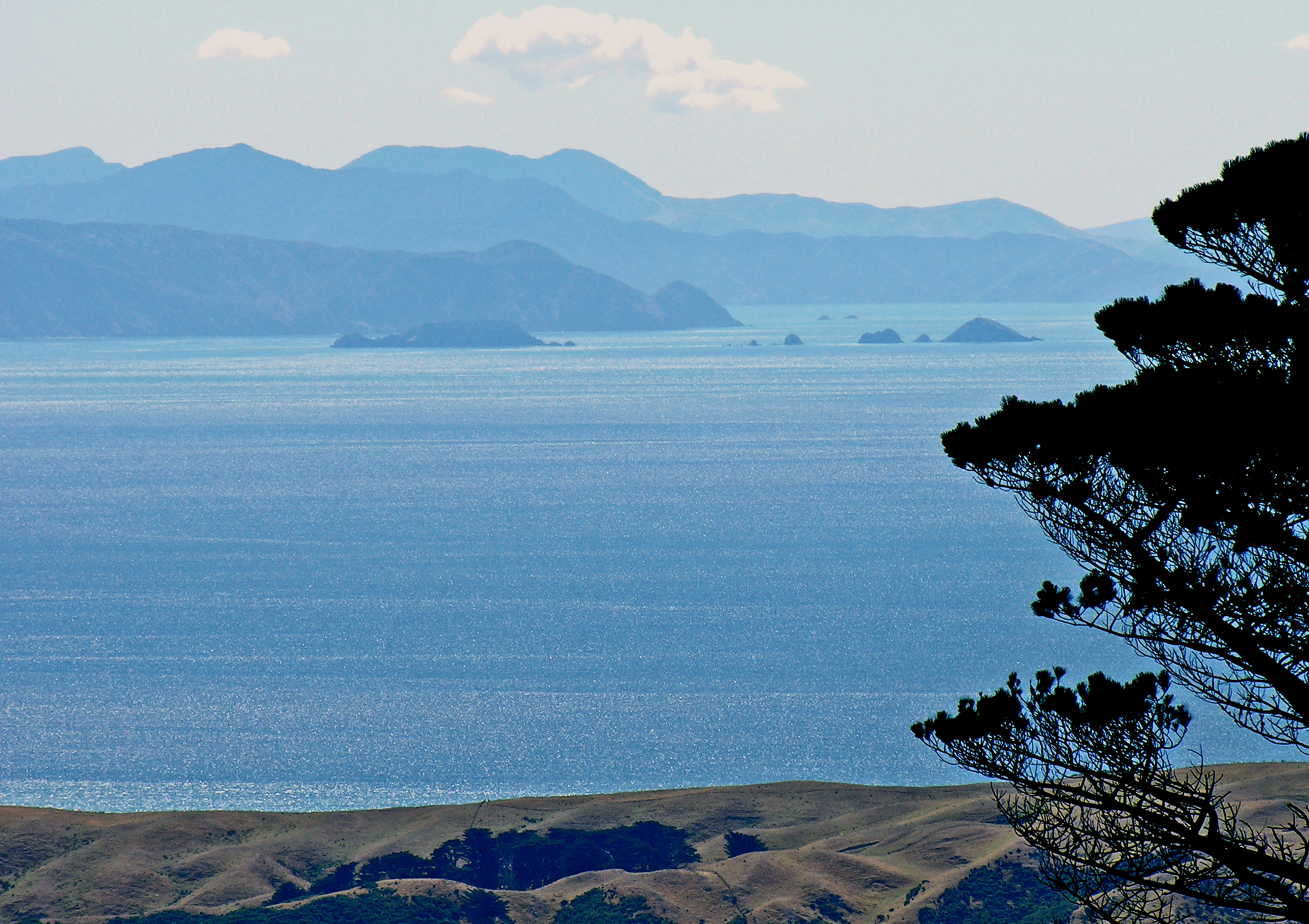 Cook Strait and the Marlborough Sounds from Mt. Kaukau, Wellington, New Zealand. The Brothers islands in front of the northern tip of Arapaoa Island, with arms of the South Island behind it.